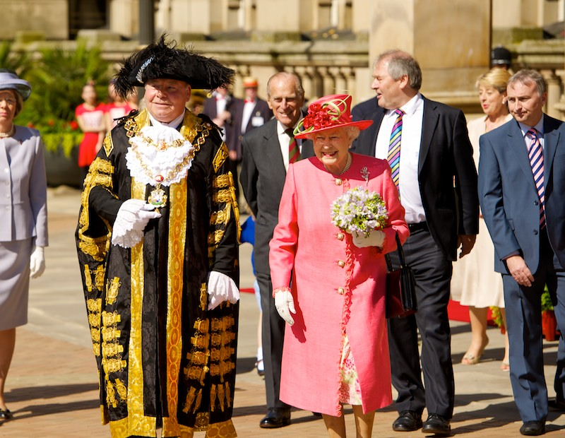 The photo's in this album were taken when Her Majesty The Queen, accompanied by HRH The Duke of Edinburgh, visited Birmingham as part of their Diamond Jubilee Tour. Officers and various policing teams were on duty to ensure the celebratory visit went safely, and thousands of people turned out to see the Royal party at Snow Hill station, Victoria Square and Queen Elizabeth Birmingham Hospital.